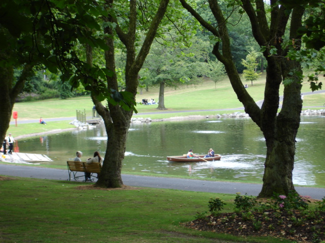 Boats were being rowed on the Handsworth Park pond on 8 July 2006 for the first time in over 20 years. It was only for one day on this occasion but local people hope that in time the boats will come back on a more permanent basis. This photo was taken by my wife, Linda Baddeley, who gives permission for the use of this image in Wikipedia. Sibadd 23:12, 13 July 2006 (UTC)